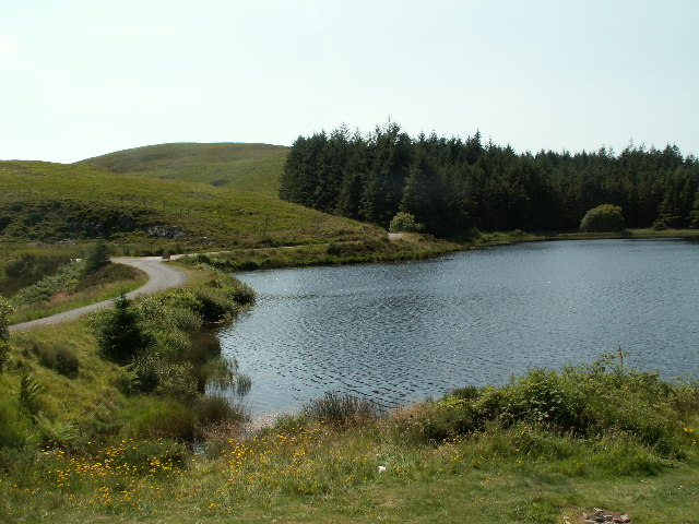 Llyn Blaenmelindwr. Reservoir, originally to provide water for the lead mines in the area.